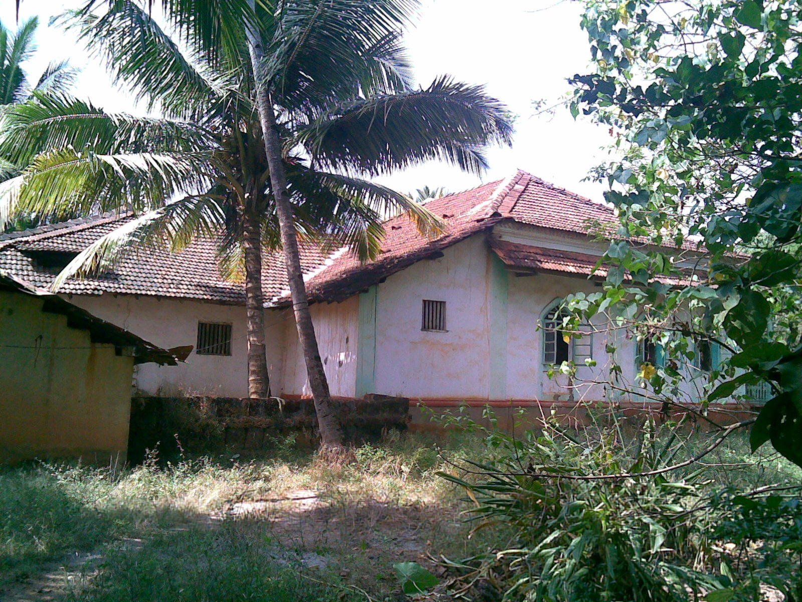 The environs typical of a home in rural Goa. Featured is the backyard of a Catholic household.